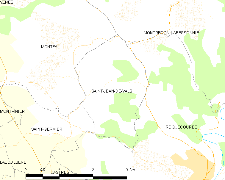 Map commune FR insee code 81256.png - Saint-Jean-de-Vals